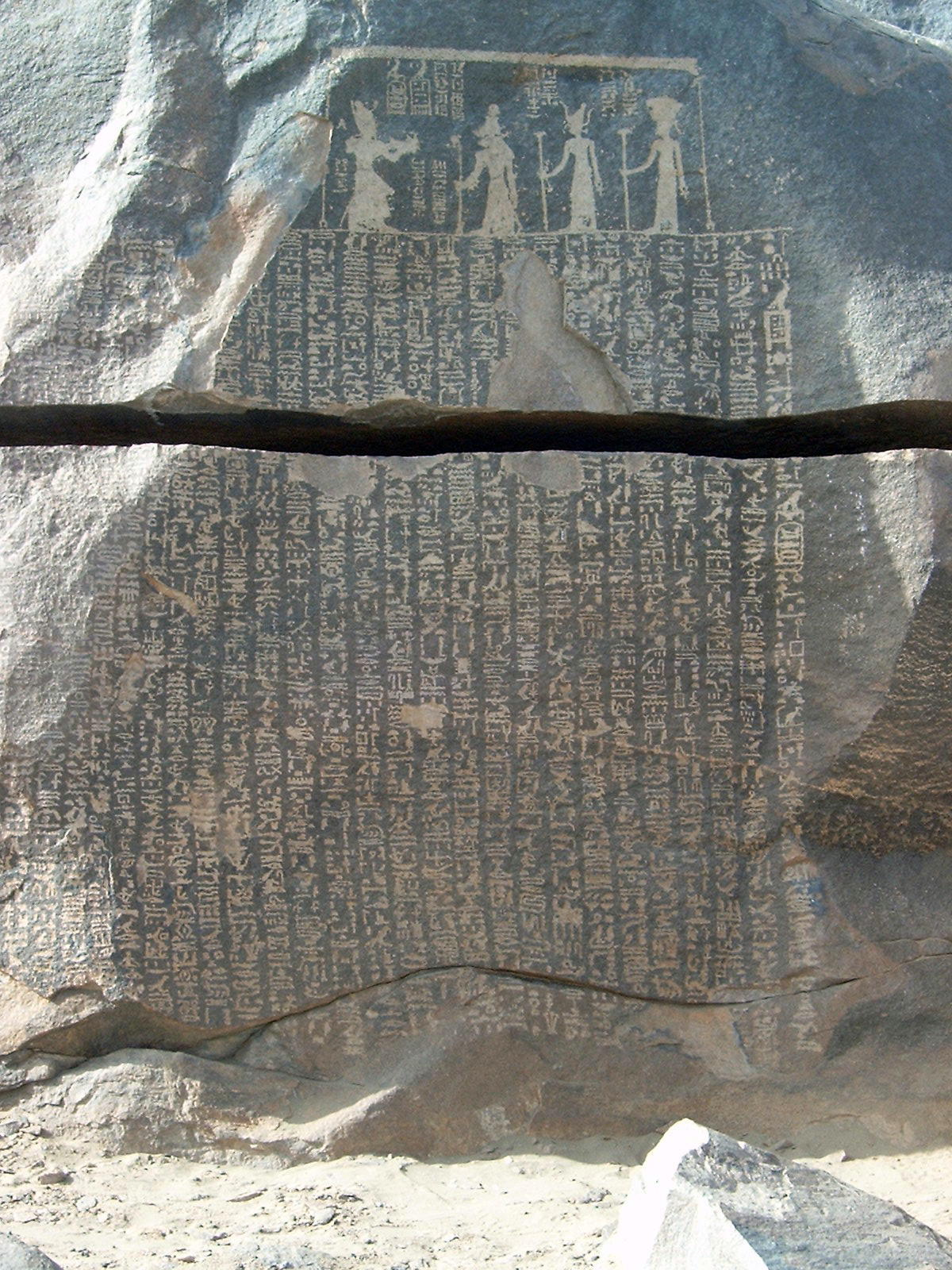 Famine Stele on Sehel Island, Egypt as found by W.M. Flinders Petrie